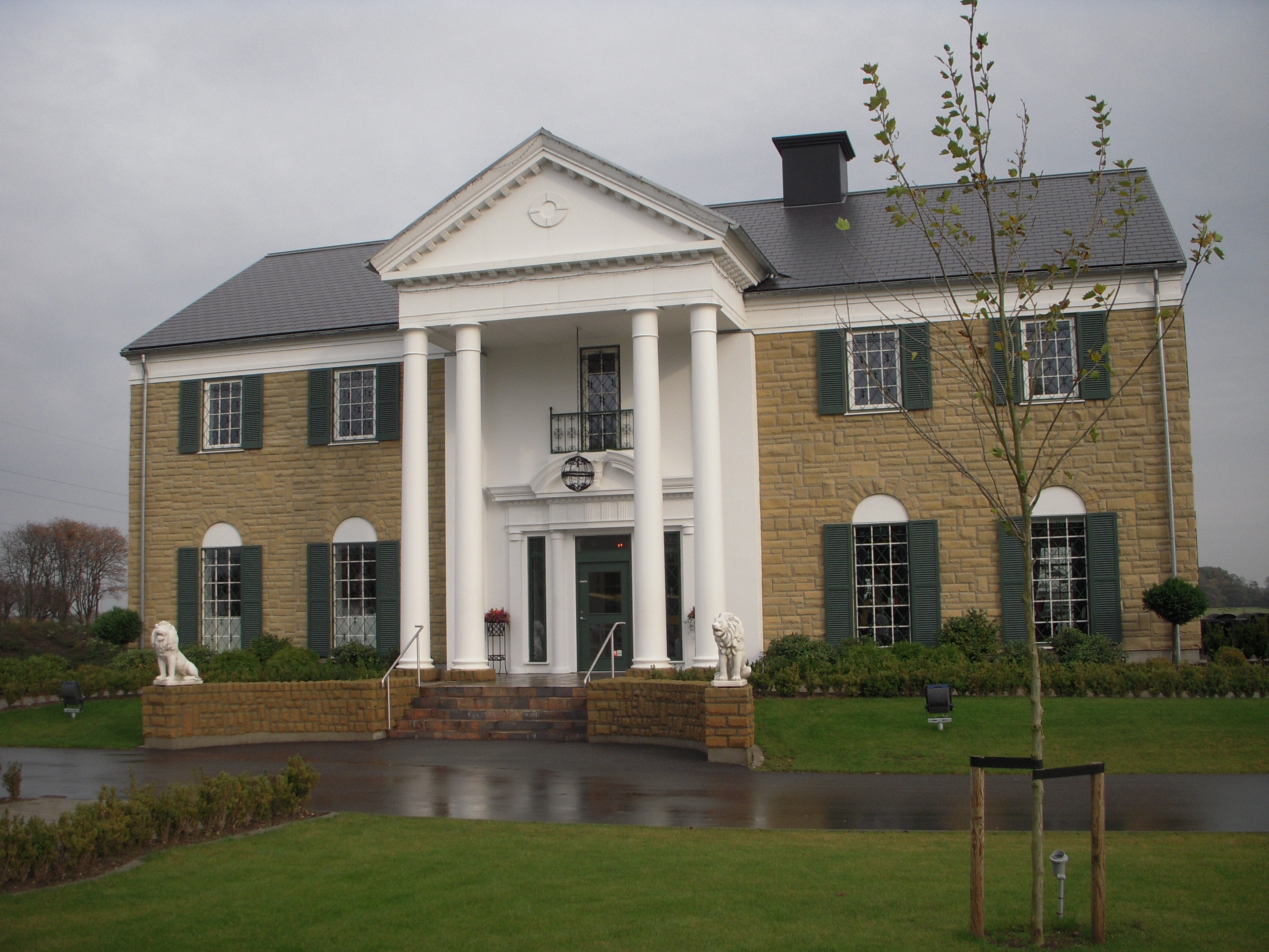 Graceland Randers is a Danish Elvis Presley museum, restaurant, shop etc. As seen from outside.